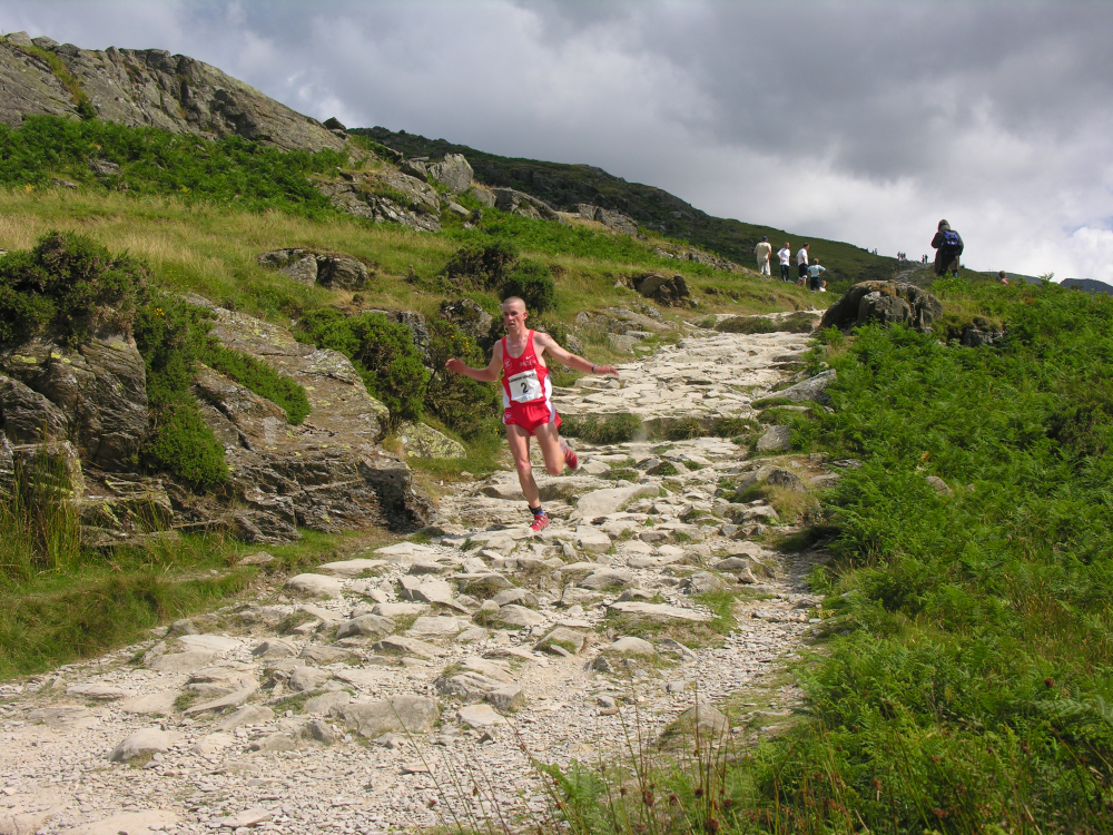 "North Wales. Shown here is the eventual winner of the annual International Snowdon Race of 2005 Tim Davis. The course starting from Llanberis goes to the summit of Yr Wyddfa (Snowdon) at 3,650 ft, the highest mountain in England or Wales, and returns to Llanberis. It uses the popular tourist path, the Llanberis Path, one of the seven recognised routes to the summit of Yr Wyddfa. The race takes in 3,000 ft of elevation and is 10 miles long. There are some smooth sections on the Llanberis Path but much of it is as you see here and steeper as well. The current records for the run, an event that attracts 500 mountain runners are Men 1985 K Stuart 1hr 2 minutes 29 seconds and Women 1993 I Holmes 1 hour 12 minutes 48 seconds. This runner, Tim Davis took 43 minutes 36 seconds for the ascent and 22 minutes 59 seconds for the descent making a total time of 1 hour six minutes 36 seconds. My personal best for the Llanberis Path is 1 hour 5 minutes for the ascent (by train of course, I’m may be a Wrinkly but I am not silly) and five hours for the descent. I was carrying a camera whereas Tim Davis is not so the camera may have slowed me down. See large to appreciate the terrain."